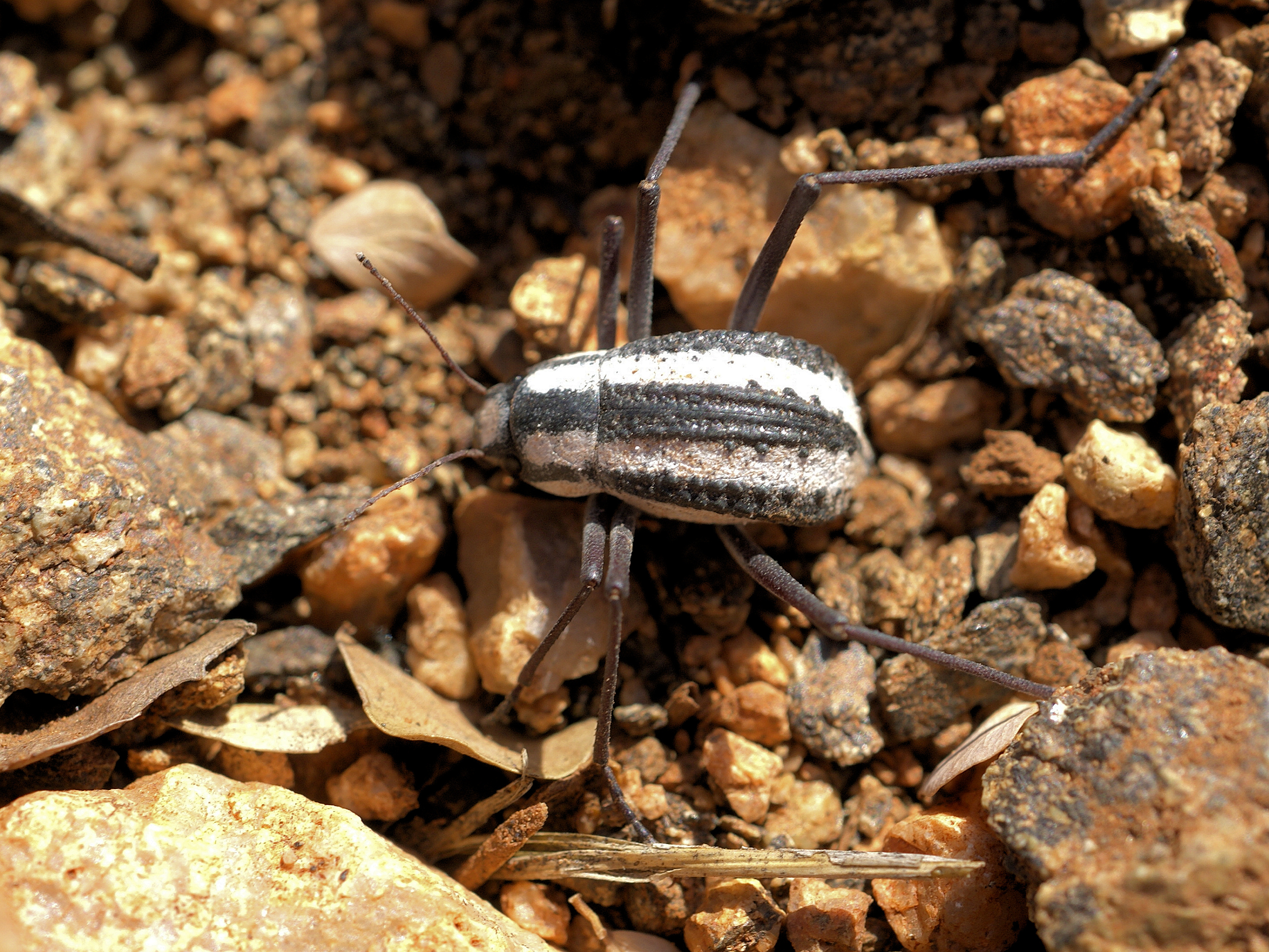 A Racing Stripe Darkling Beetle at Epupa Falls, Namibia